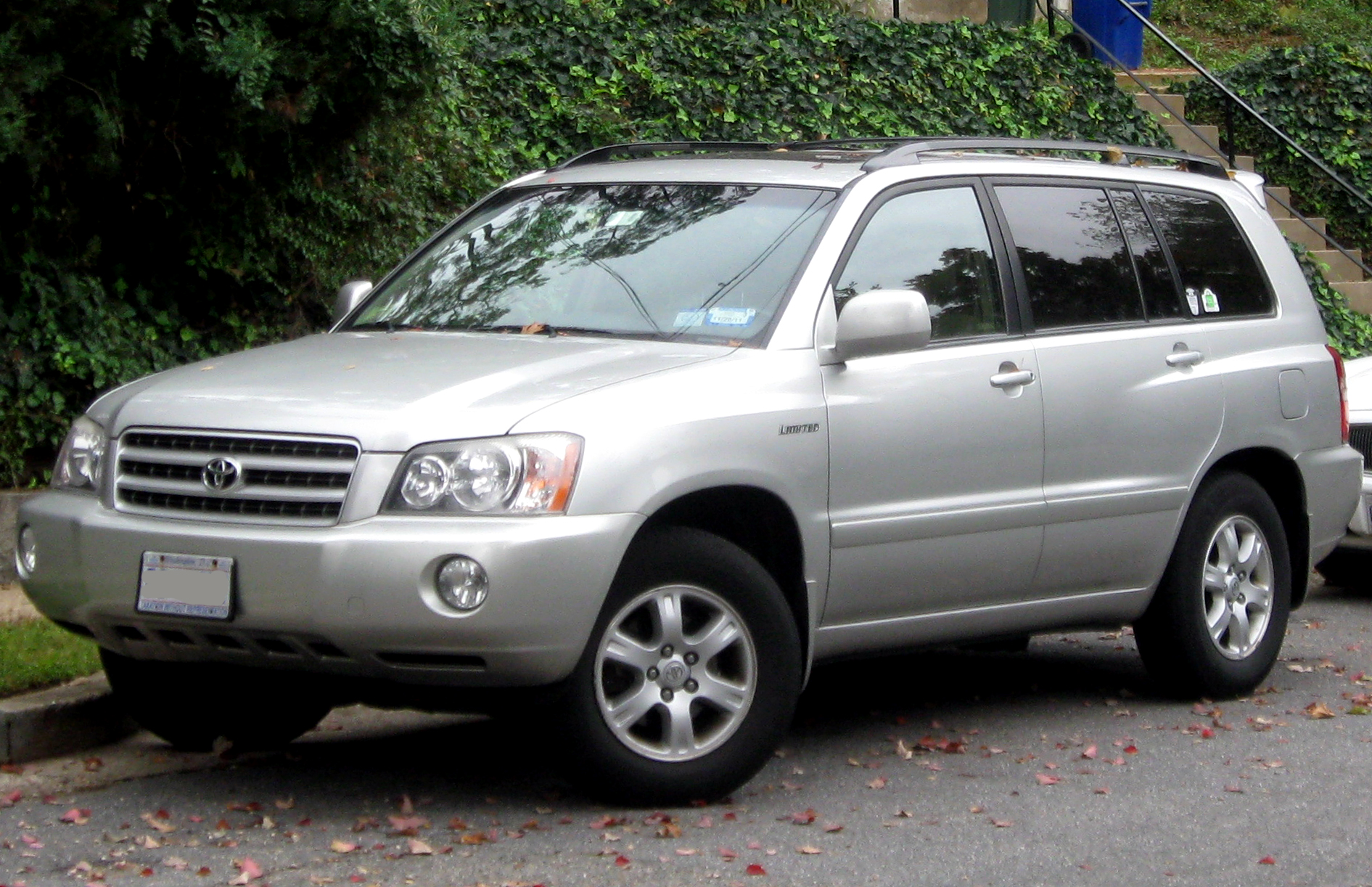 2001-2003 Toyota Highlander photographed in Washington, D.C., USA.